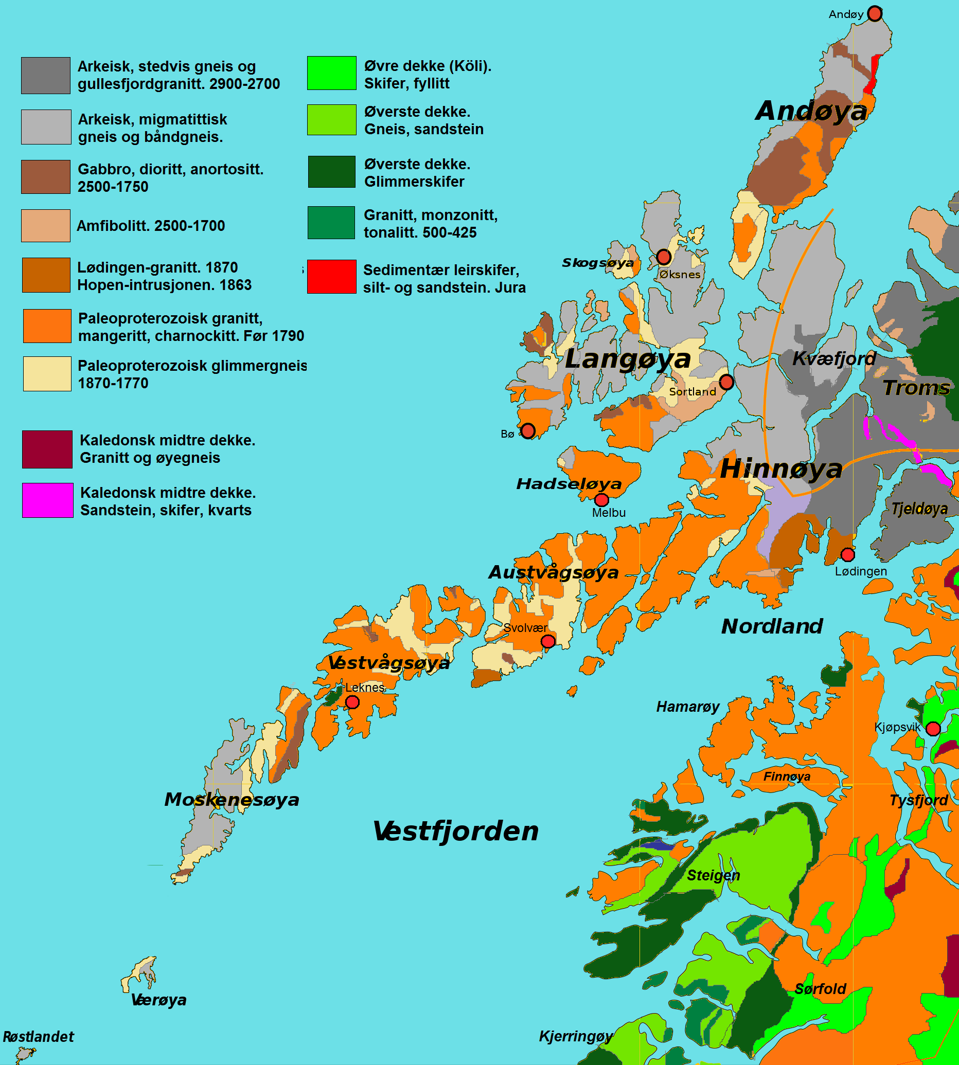 Geological map of Lofoten and Vesteraalen, Norway.